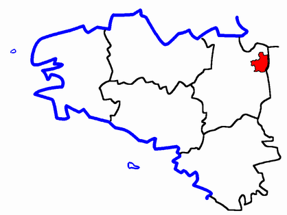 Description: Map for localisazion of cantons of Bretagne region in France Source: made by Hervé Tigier from another large map